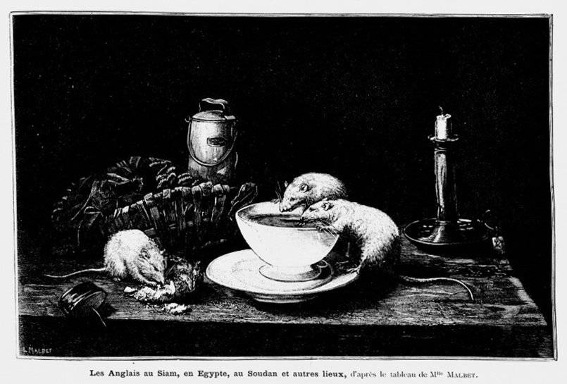 "The British in Siam, Egypt, the Sudan and other places". The Anglophobic caption has been added to a painting by Léontine Malbet, who occasionally included rats and white mice in her paintings. Published in the 19 November 1898 issue of the French weekly La France illustrée during the Fashoda Incident.